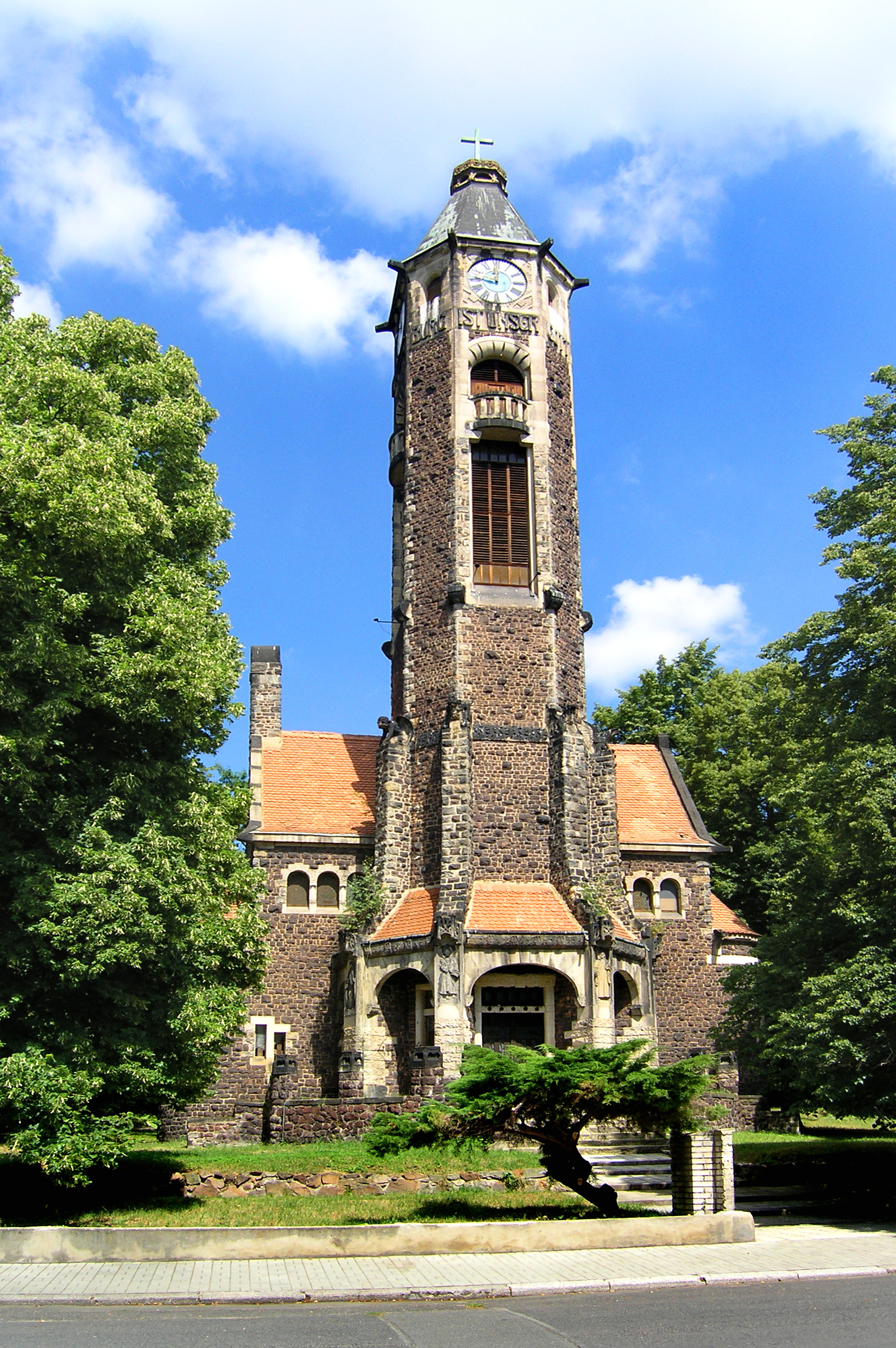 Evangelic church in Hrob town, Czech Republic